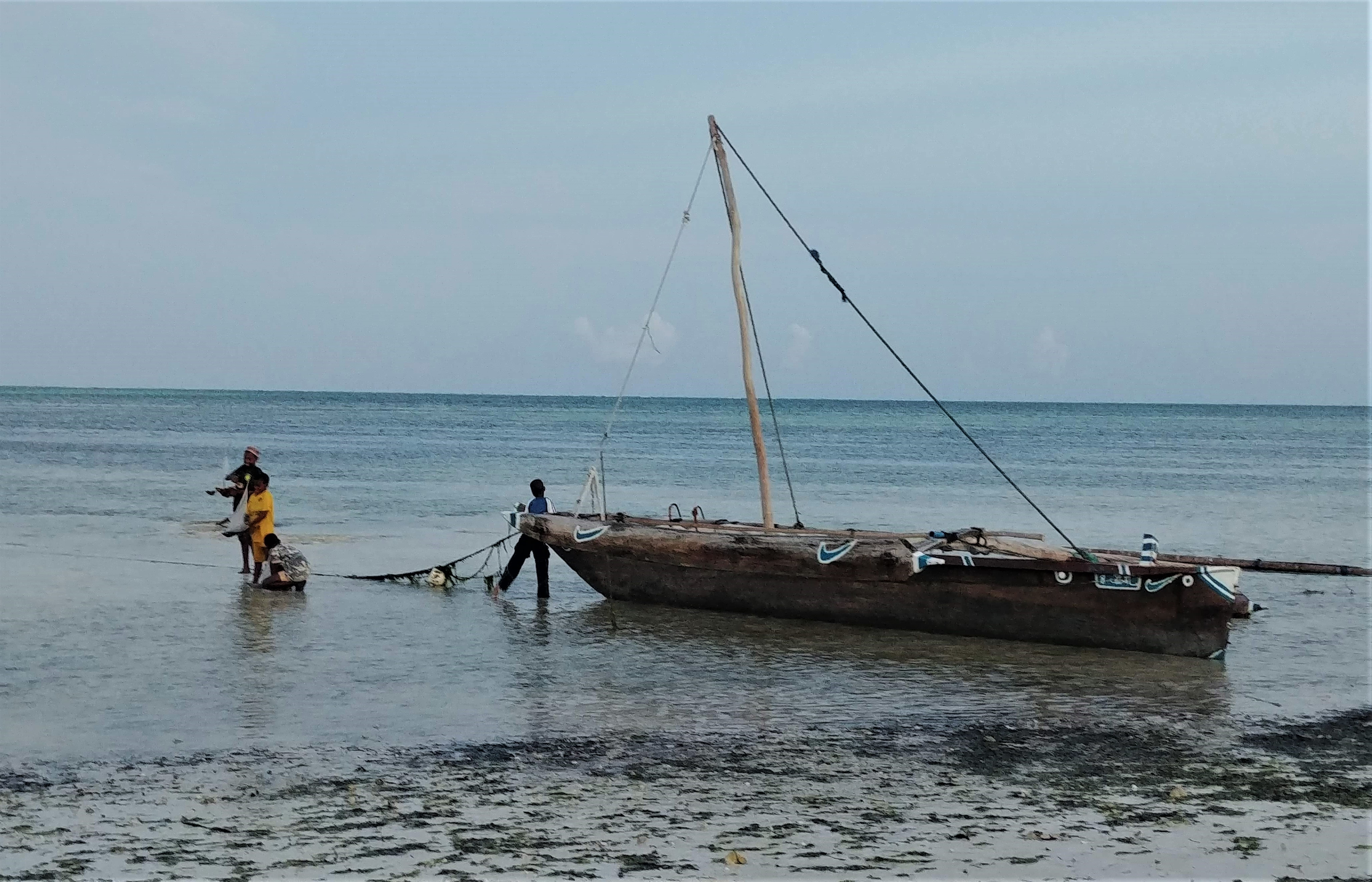 Fishing and tourism are big industries in Zanzibar. Frequently, boats will be used for both fishing and transporting tourists. This is an image with the theme "Africa on the Move or Transport" from: Tanzania